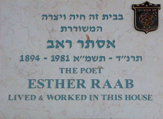 memorial sign for Esther Raab in Tel-Aviv